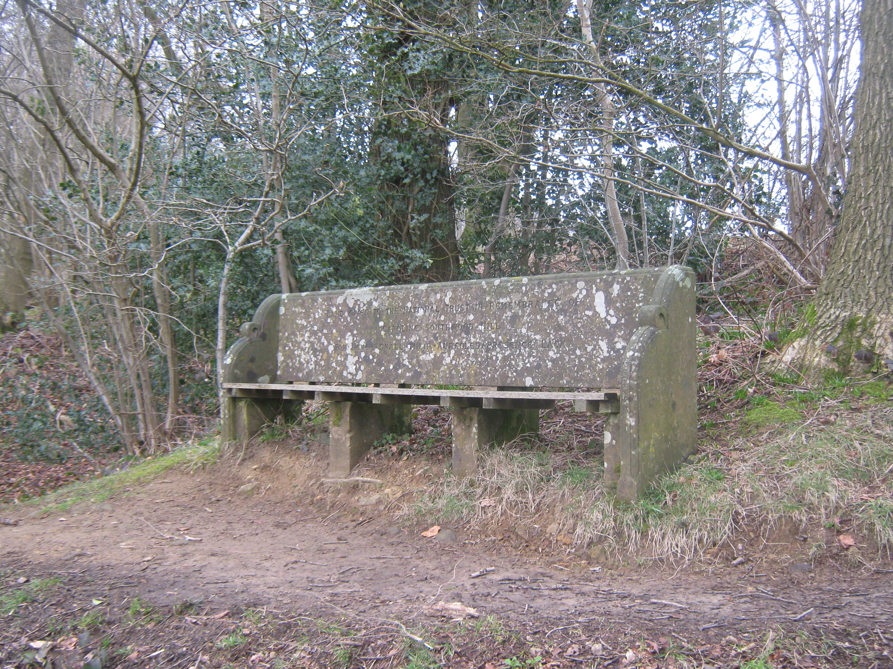 Stone Bench on Mariners Hill. This bench is on the National Trust Land of Mariners Hill. The bench has been inscribed with 'Land given to the National Trust in remembrance of Caroline Southwood Hill. "for never shall their aureoled presence lack" ' Caroline Hill was a sister of Octavia Hill, one of the founders of the National Trust. for more on Octavia Hill. for more details on Mariners Hill. Note; the phrase on the bench comes from The Vision of Sir Launfal by James R. Lowell.